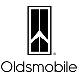 Oldsmobile logo used until 1997. The logo illustrates the older "Rocket" design that the company has used for many years.